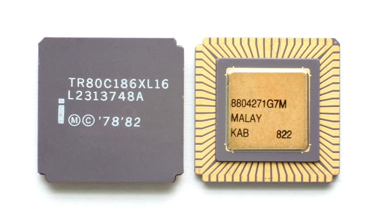 CPU Intel TR80C186XL CLCC top and bottom view.